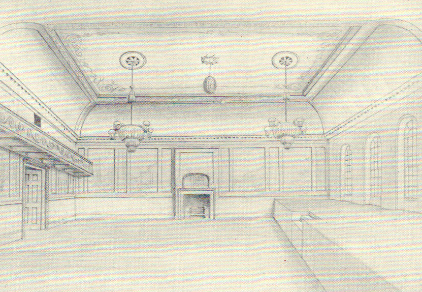 Concert venue, Hickford's Long Room, from an 1878 drawing.